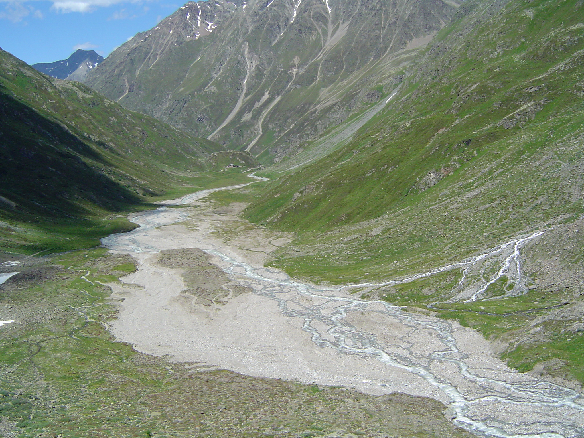 Sulztal valley - Stubai Alps